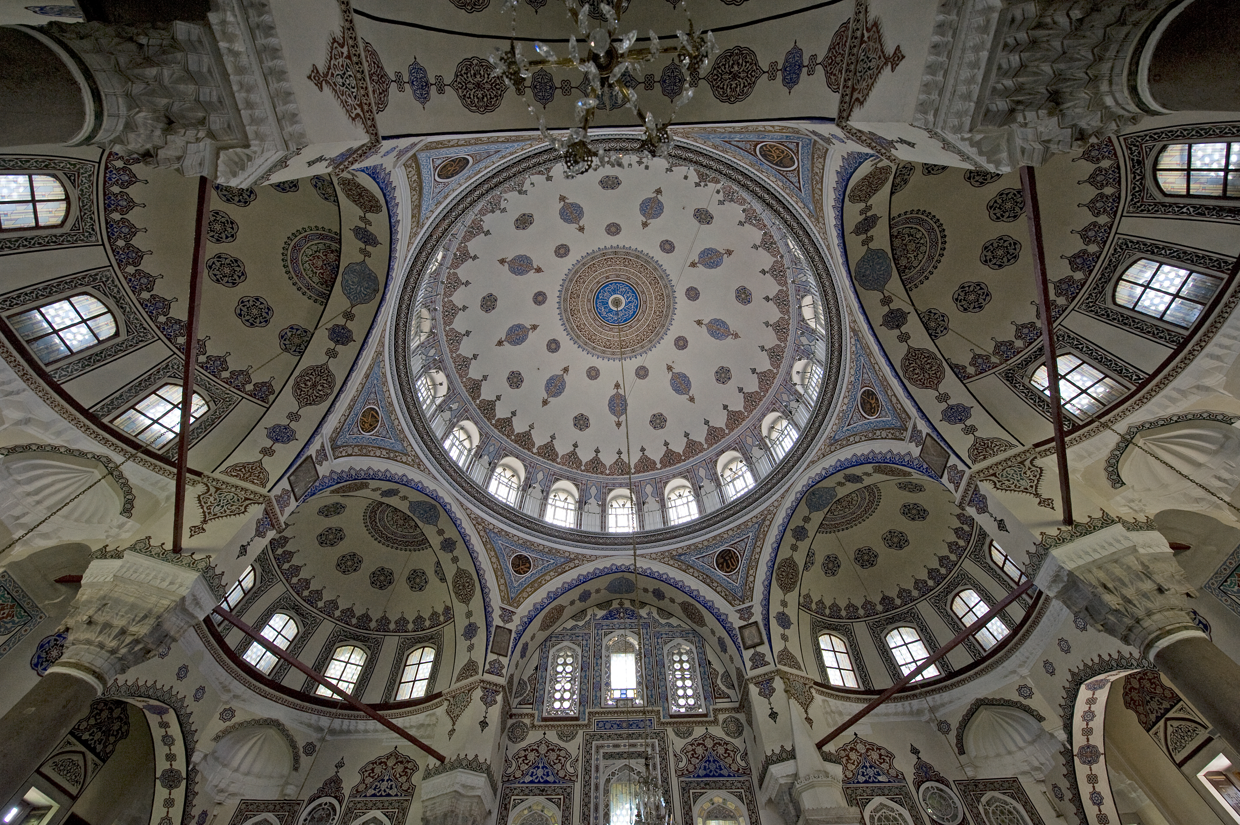 [The mosque] It was commissioned by Kara Ahmet Paşa (‘Black Ahmet’), a Grand Vizir (and brother-in-law) of Süleyman the Magnificent. He was married to Fatma Sultan, a daughter of Süleyman’s father Selim I. The building works started in 1555 (shortly before Ahmet Paşa died), and finished three years later under supervision of Rüstem Paşa, another Grand Vizier (and a son-in-law) of sultan Süleyman. The courtyard north of the mosque has a large şadırvan (fountain for ritual ablutions) in its center; it is surrounded by a medrese, with cells for the students and a dershane (main classroom). The türbe (mausoleum) of Kara Ahmet Paşa (built 1558) stands next to the mosque. Info from J.M.Criel, Antwerpen. Sources: ‘Türkiye Tarihi Yerler Kılavuzu’ – M.Orhan Bayrak, Inkılâp Kitabevi, Istanbul, 1994